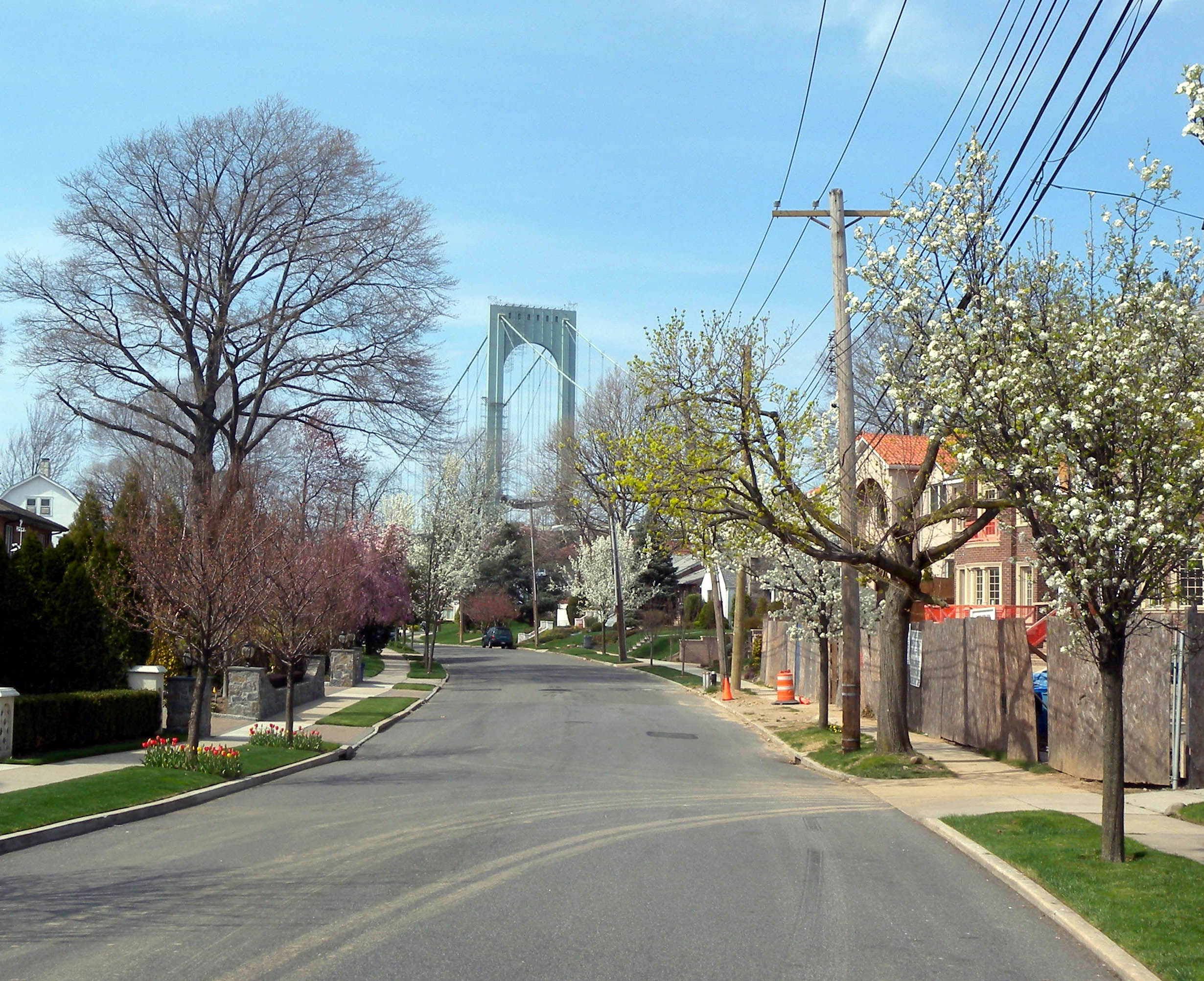 Looking north on Malba Drive in Malba, Queens on a cloudy midday.